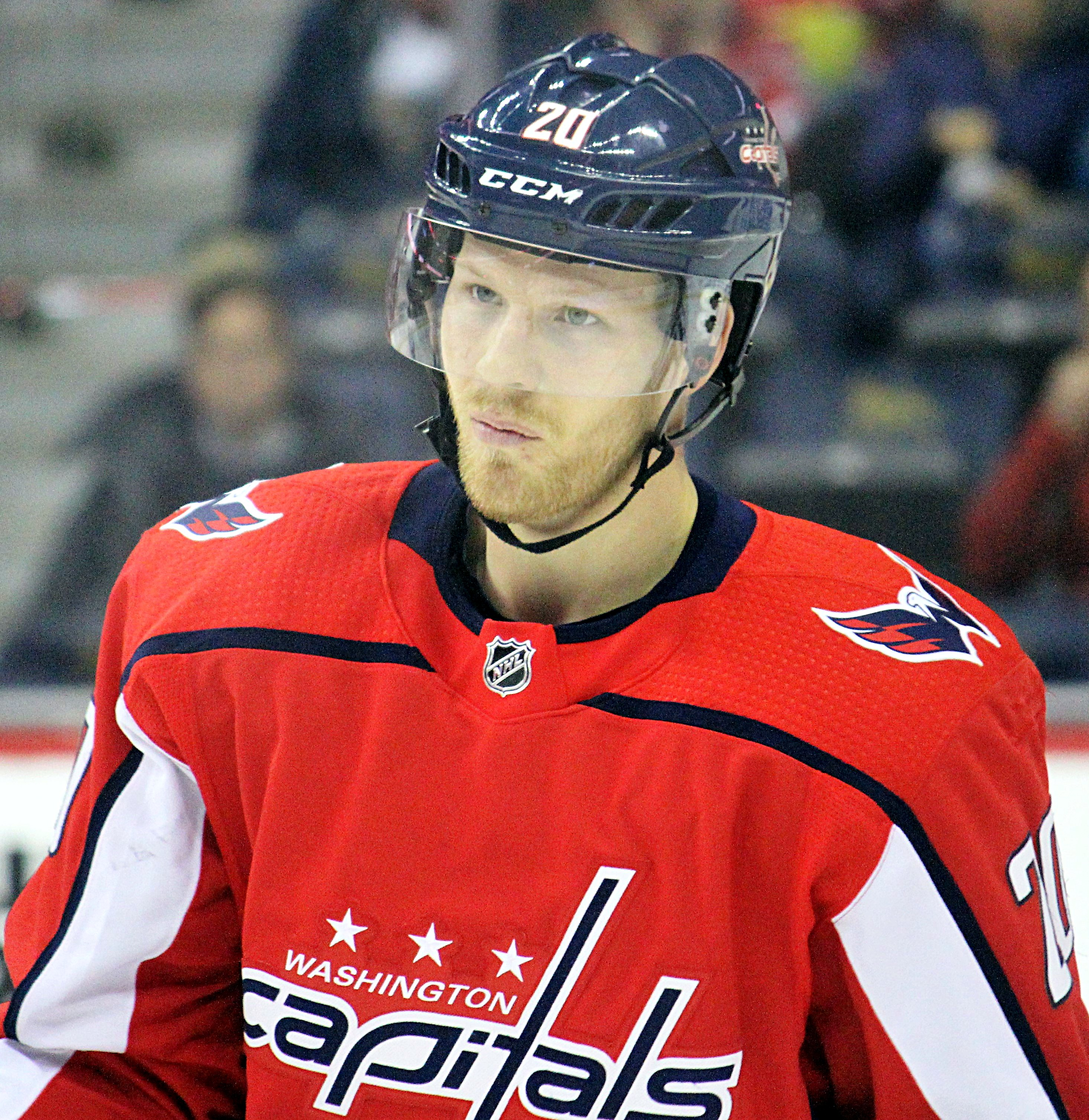 Washington Capitals centre Lars Eller during a game against the Vegas Golden Knights, February 4, 2018, at Capital One Arena in Washington, D.C.